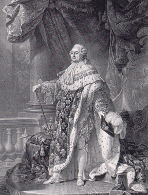 Portrait of Louis XVI, engraving by Charles Clément Balvay, after a painting by Antoine-François Callet.